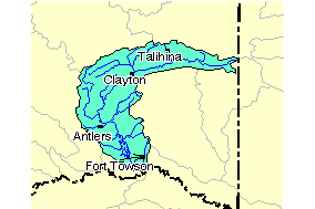 Map of the watershed of the Kiamichi River in Oklahoma. The view is of the river from its headwaters to its confluence with the Red River.